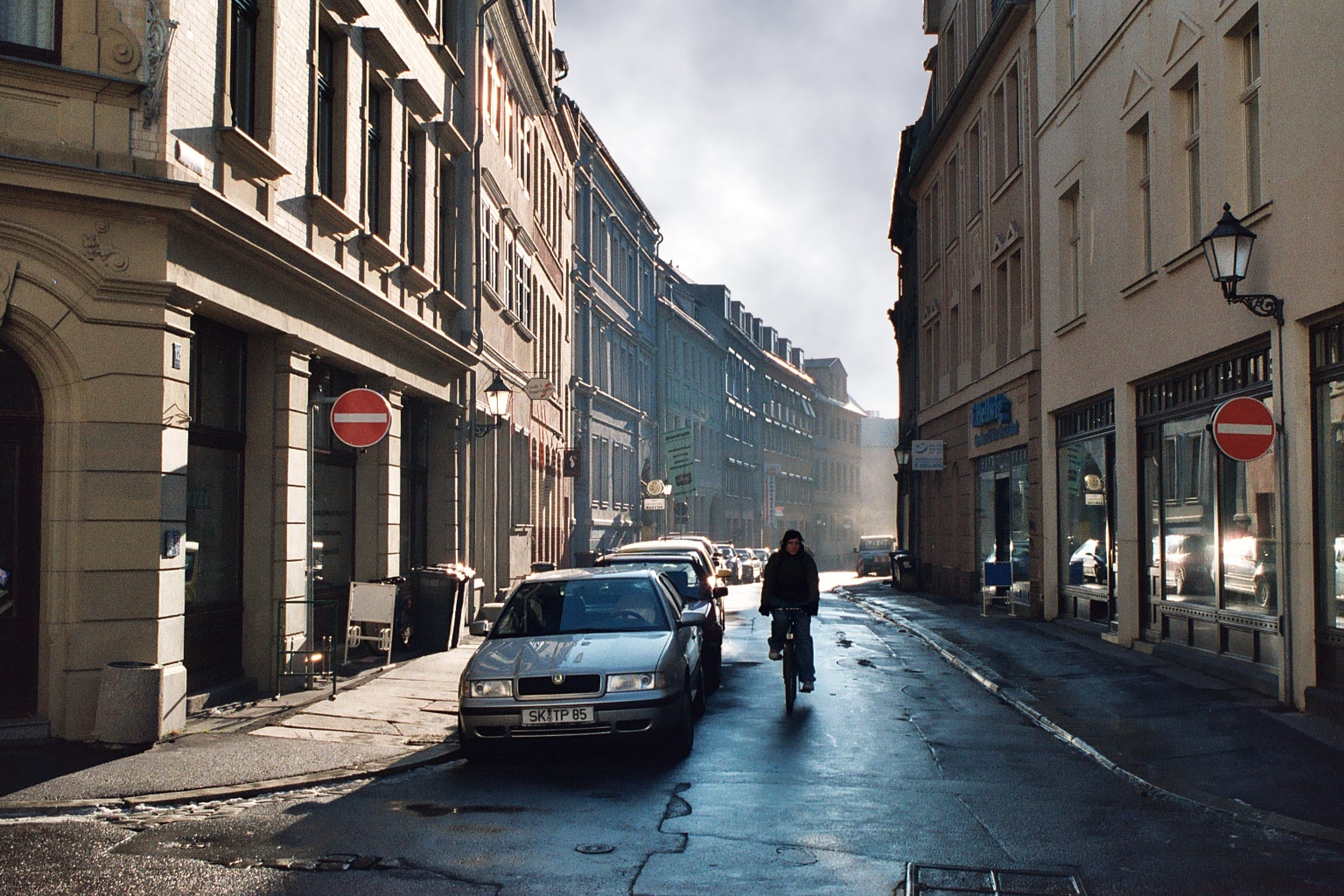 Halle (Saale), the Barfüßerstraße